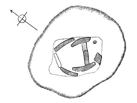 Trethevy Quoit - Liskeard - Cornwall - UK